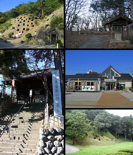 Yoshimi montage